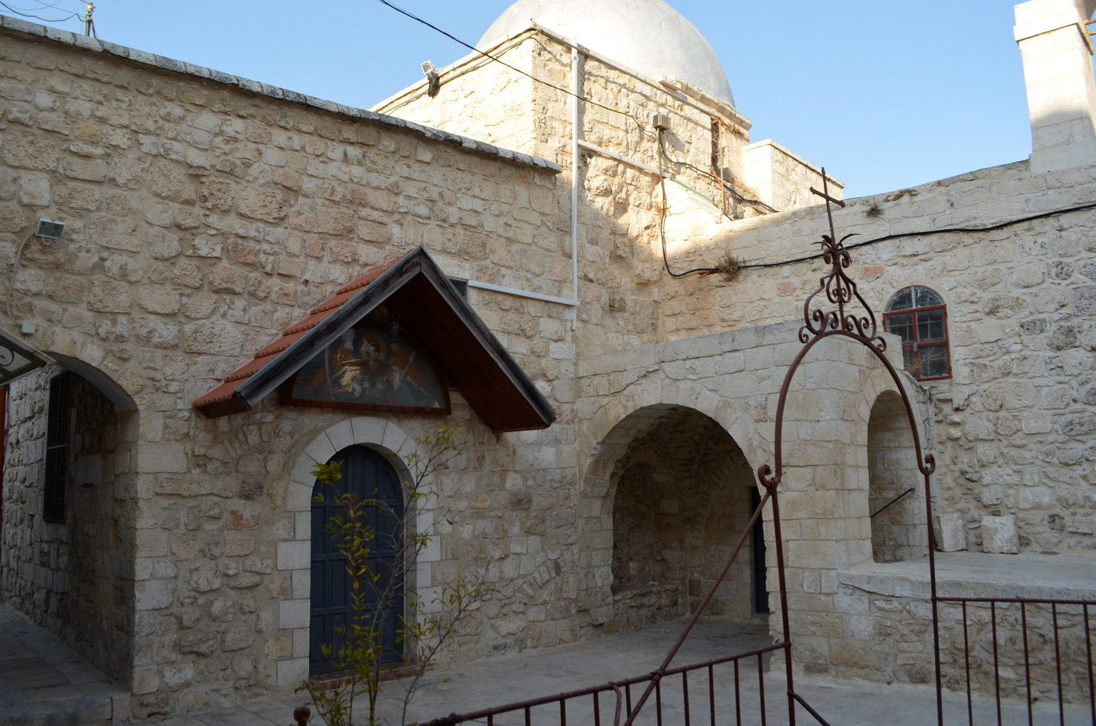 Monastery of St. Michael Archangel, Jerusalem